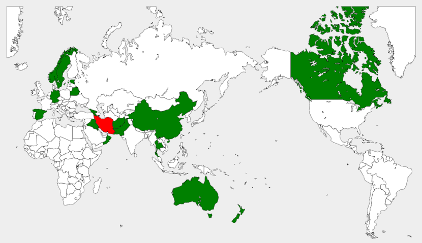 World countries with COVID-19 cases linked to Iranian cluster